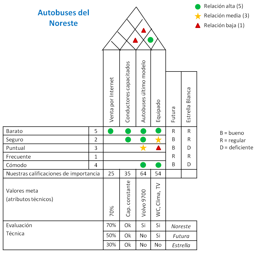 house of quality of buses in spanish